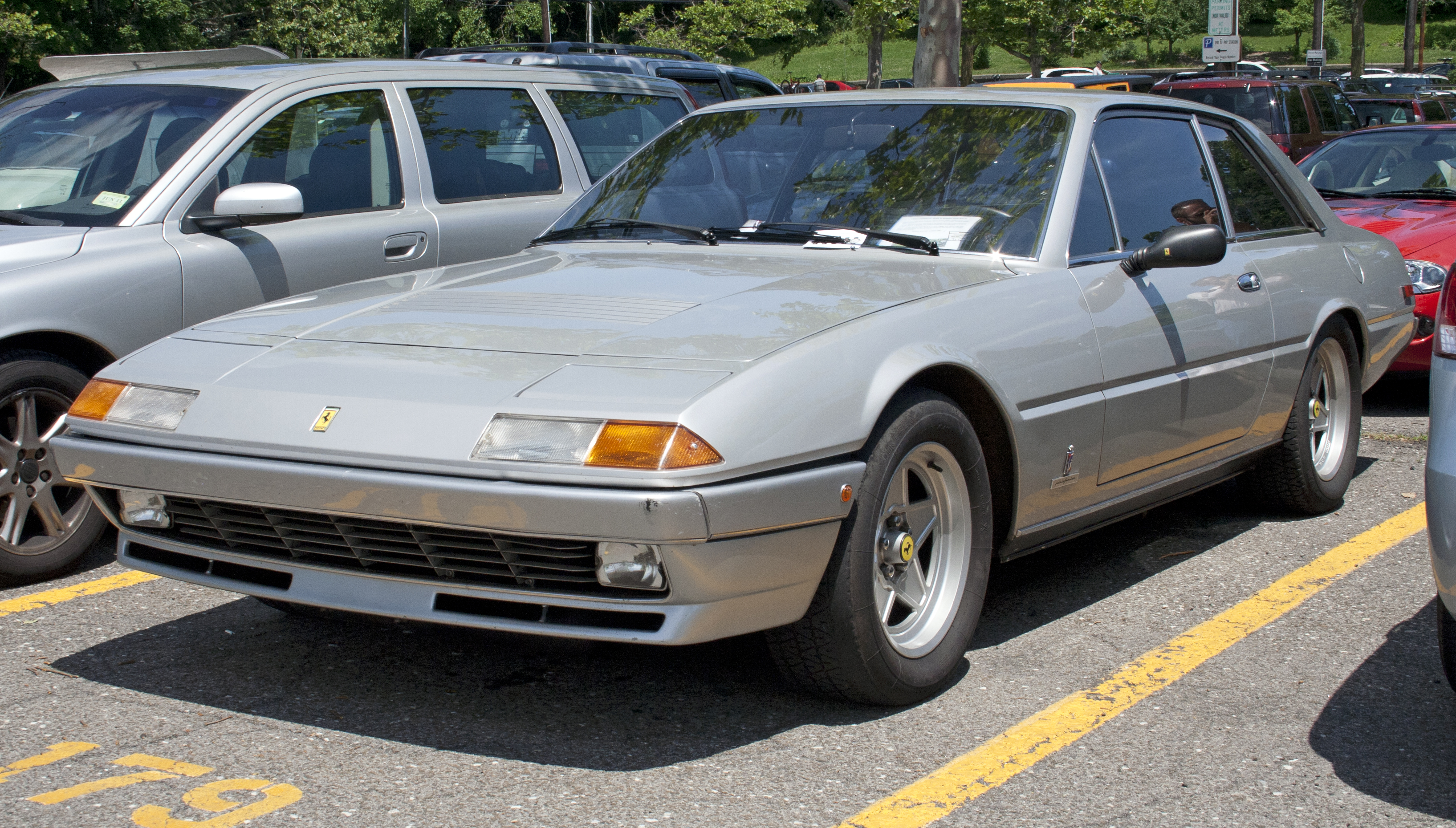 1983 Ferrari 400i 5-speed manual in the parking lot of the 2012 Greenwich Concours d'Elegance. Only 82 manual 400s were built in 1983, and only 424 during the entire production run.